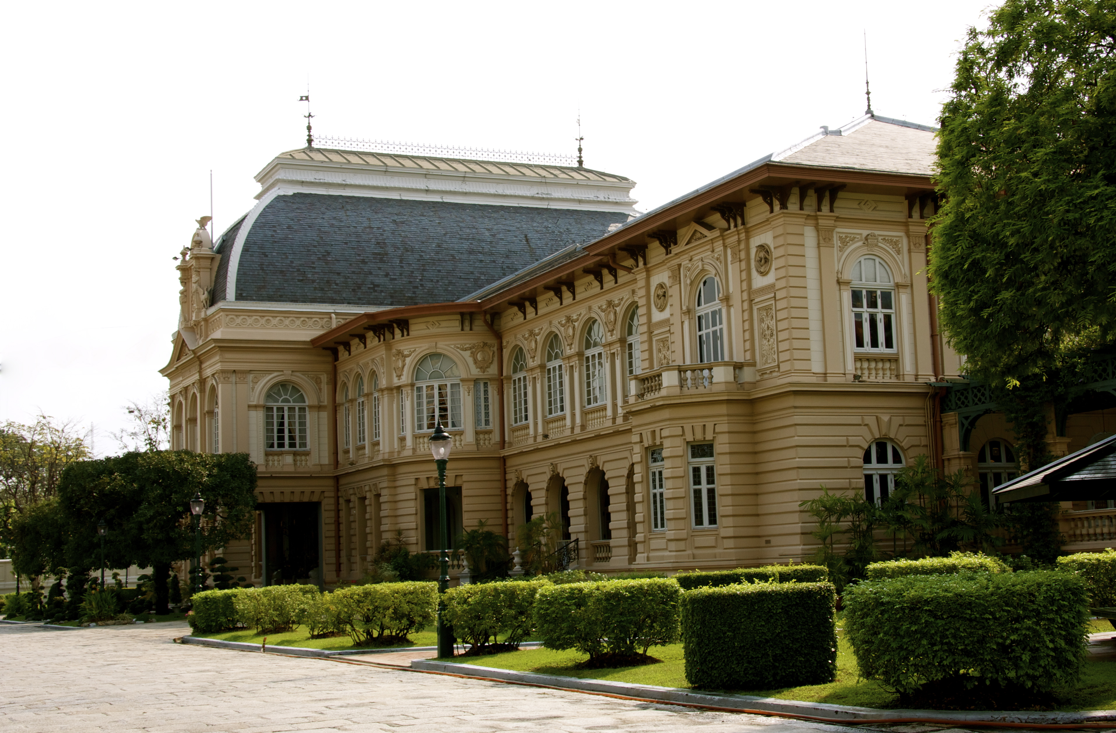 Boromphiman Palace, Grand Palace, Bangkok, Thailand